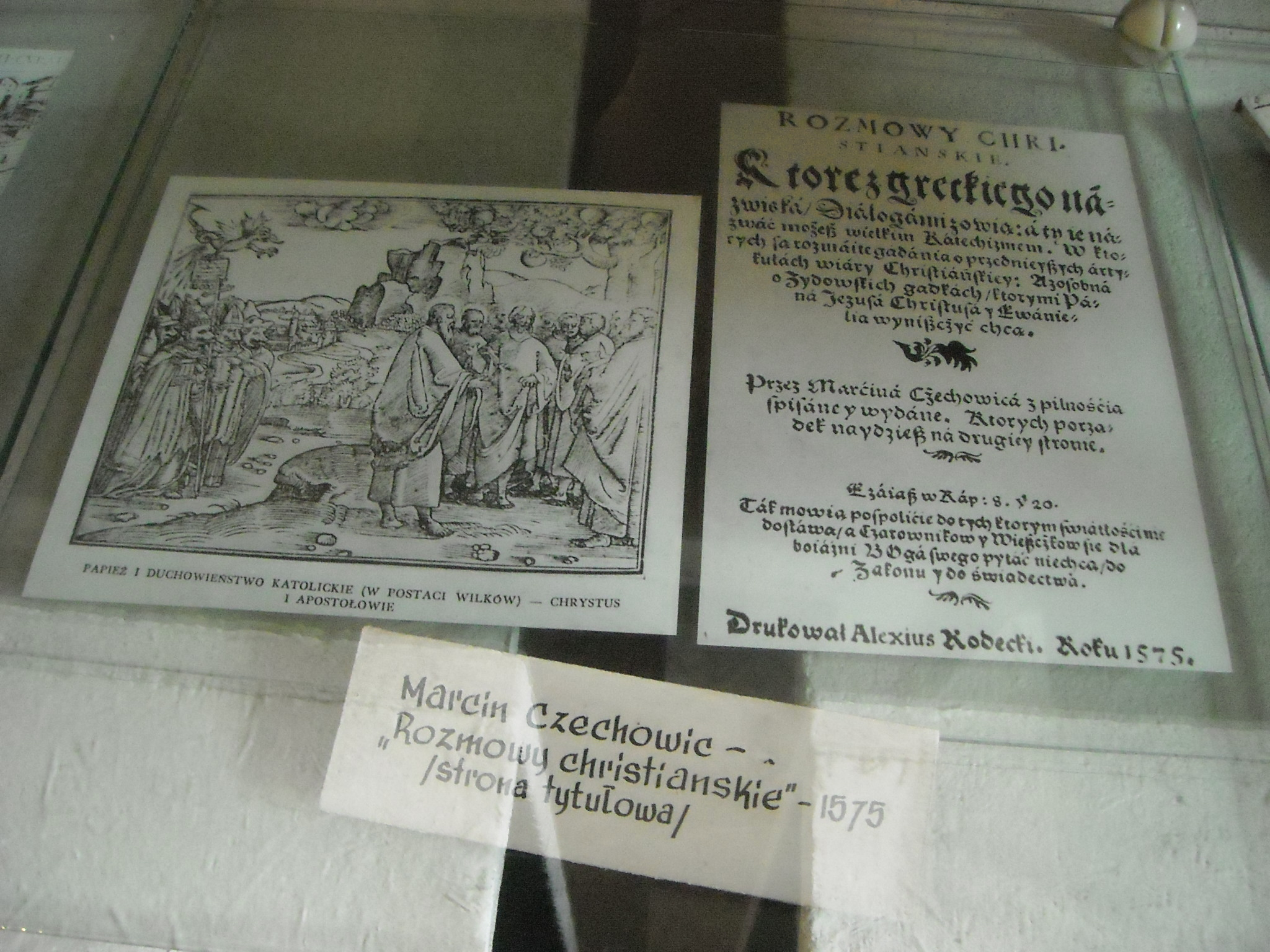 Rozmowy Christianskie (1575) (Christian dialogues) by Marcin Czechowic of the Polish brethren. Regional museum in Pińczów, Poland